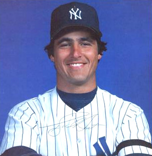 Professional baseball player Bucky Dent during the 1981 season as a member of the New York Yankees.